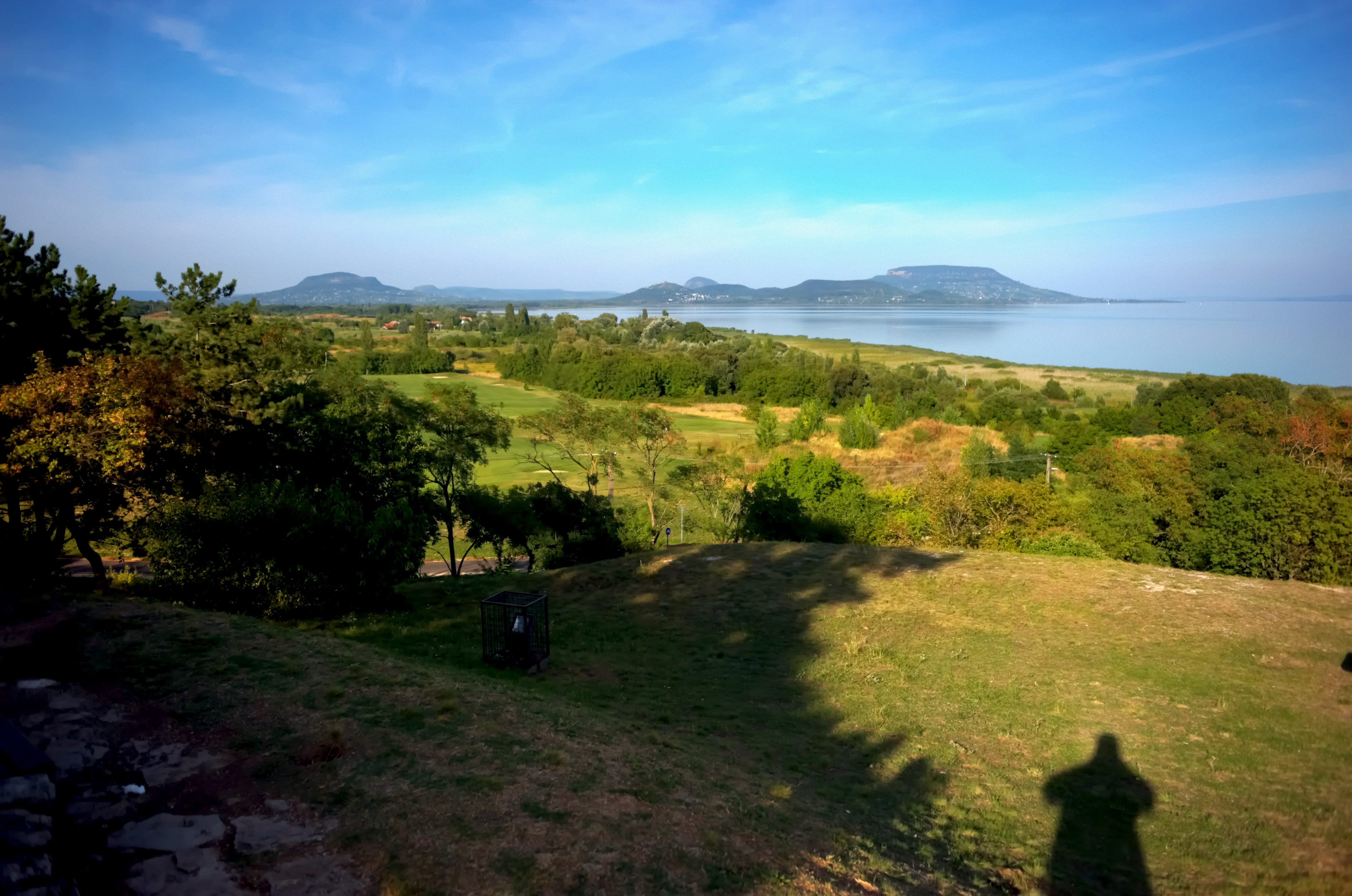 Lake Balaton 28.8.2015